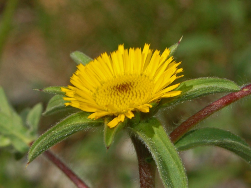 Pallenis spinosa - Genova, Italy